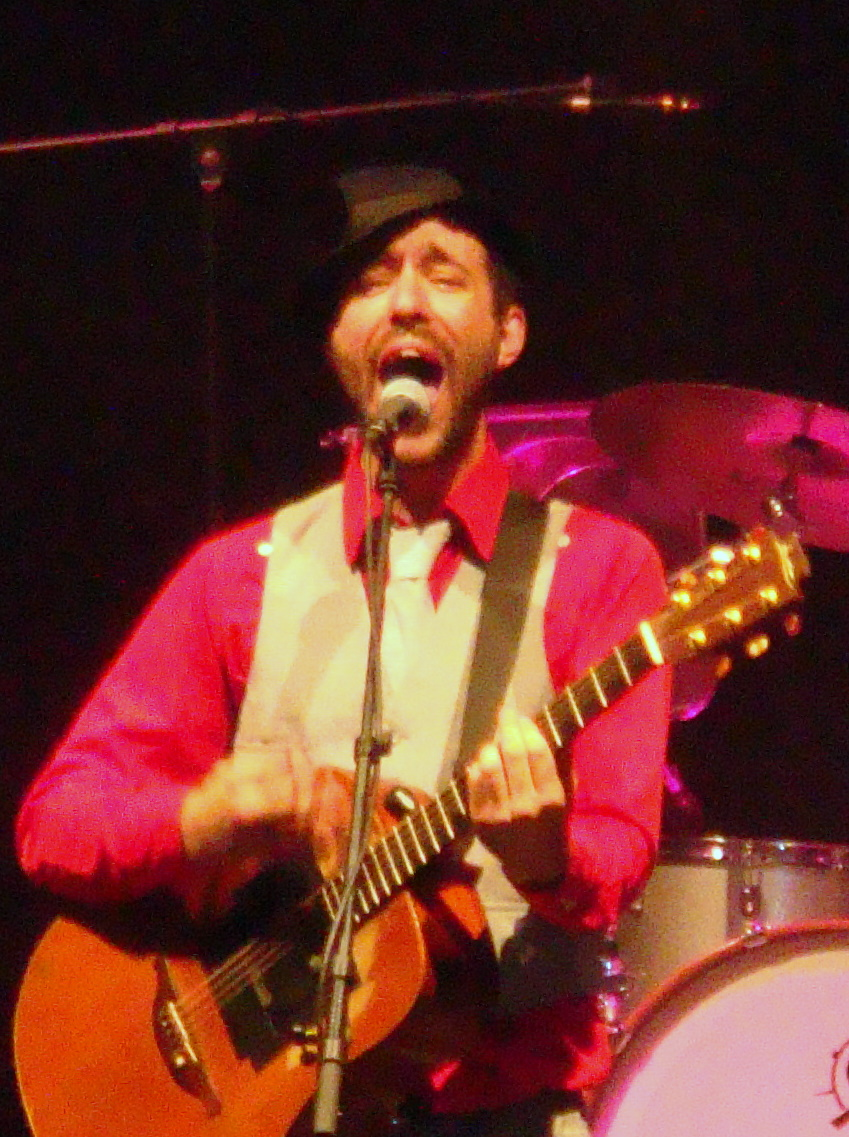 Charlie Winston in Carribana Festival (Nyon, Switzerland)